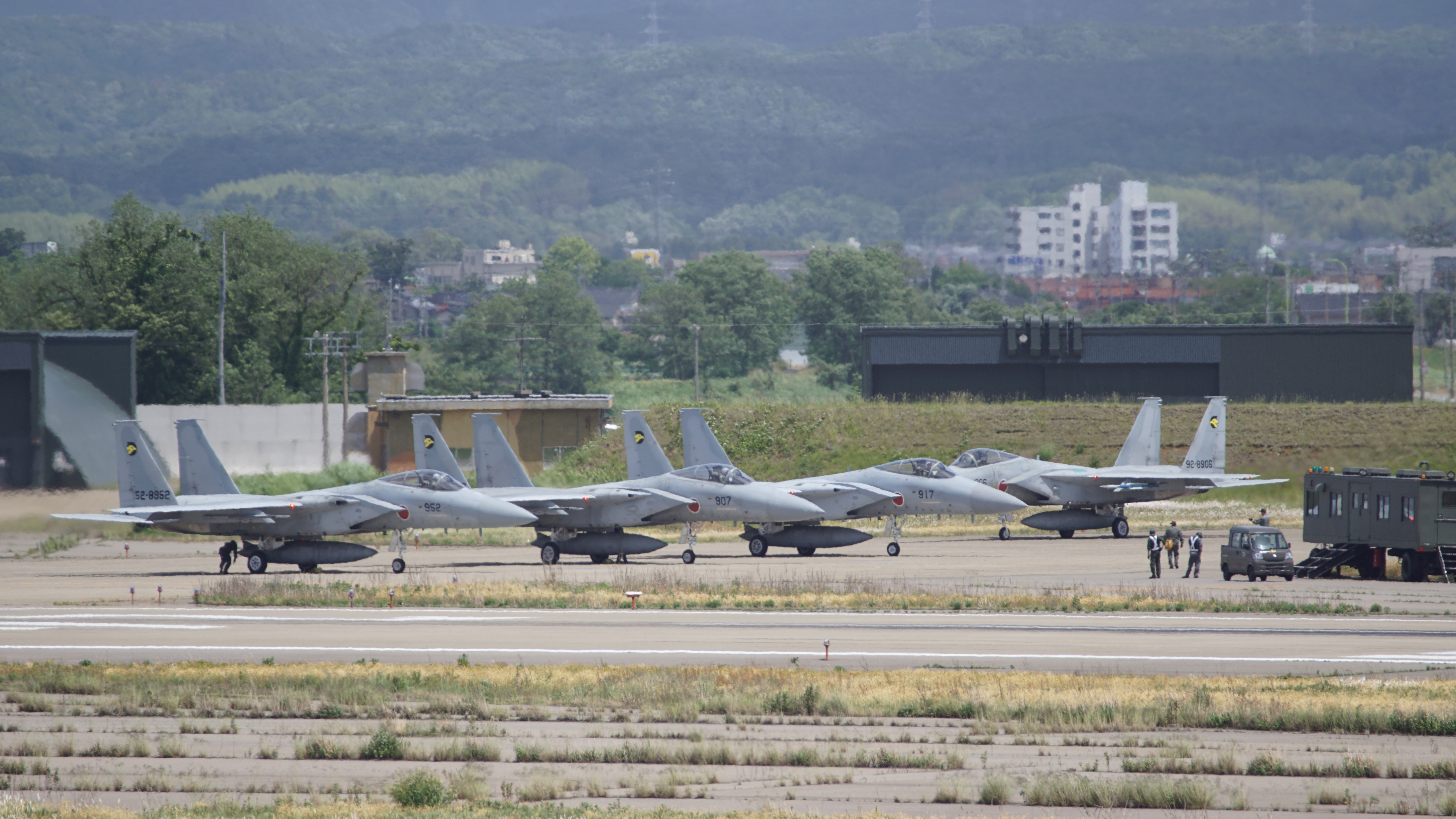 4 JASDF F-15 Js at Komatsu airport 2017